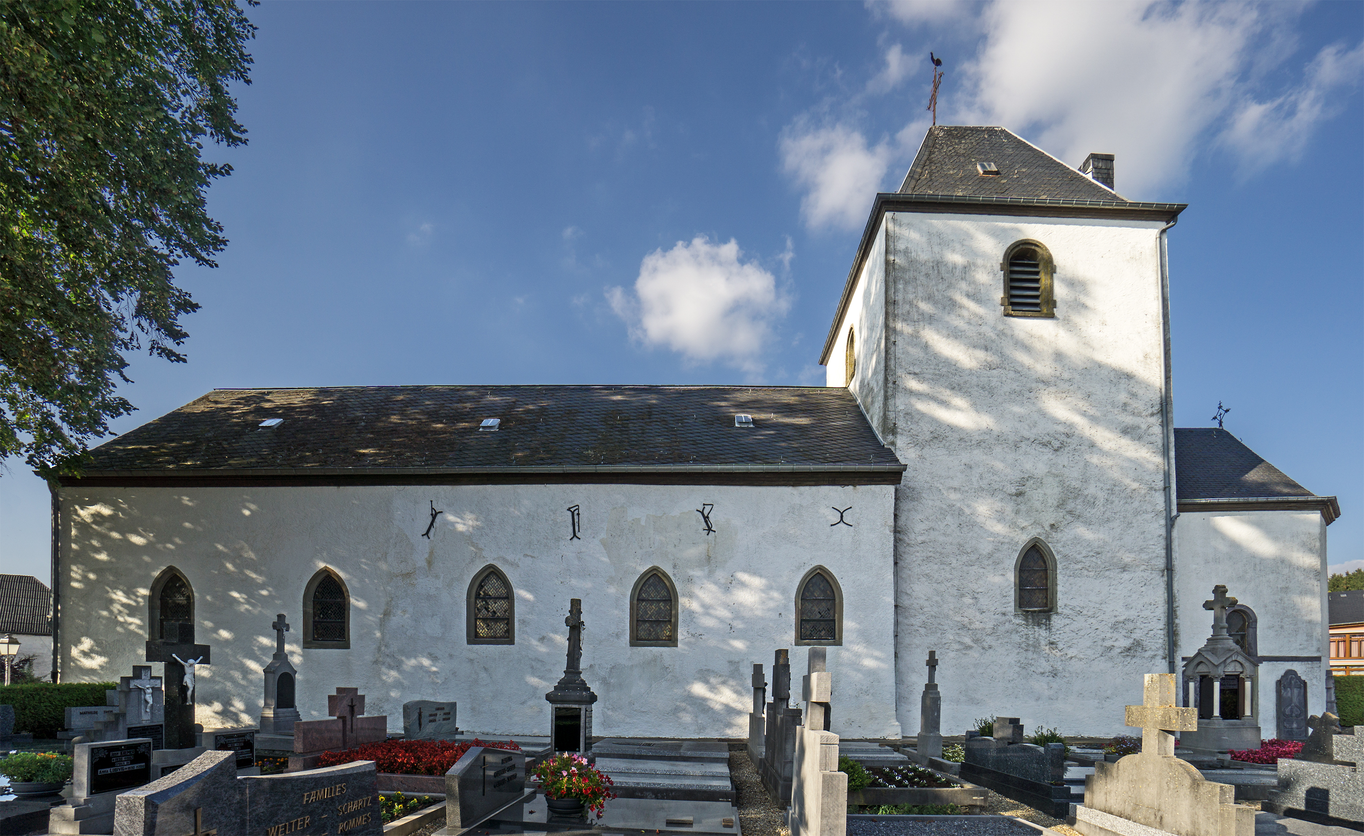 Church of Holler